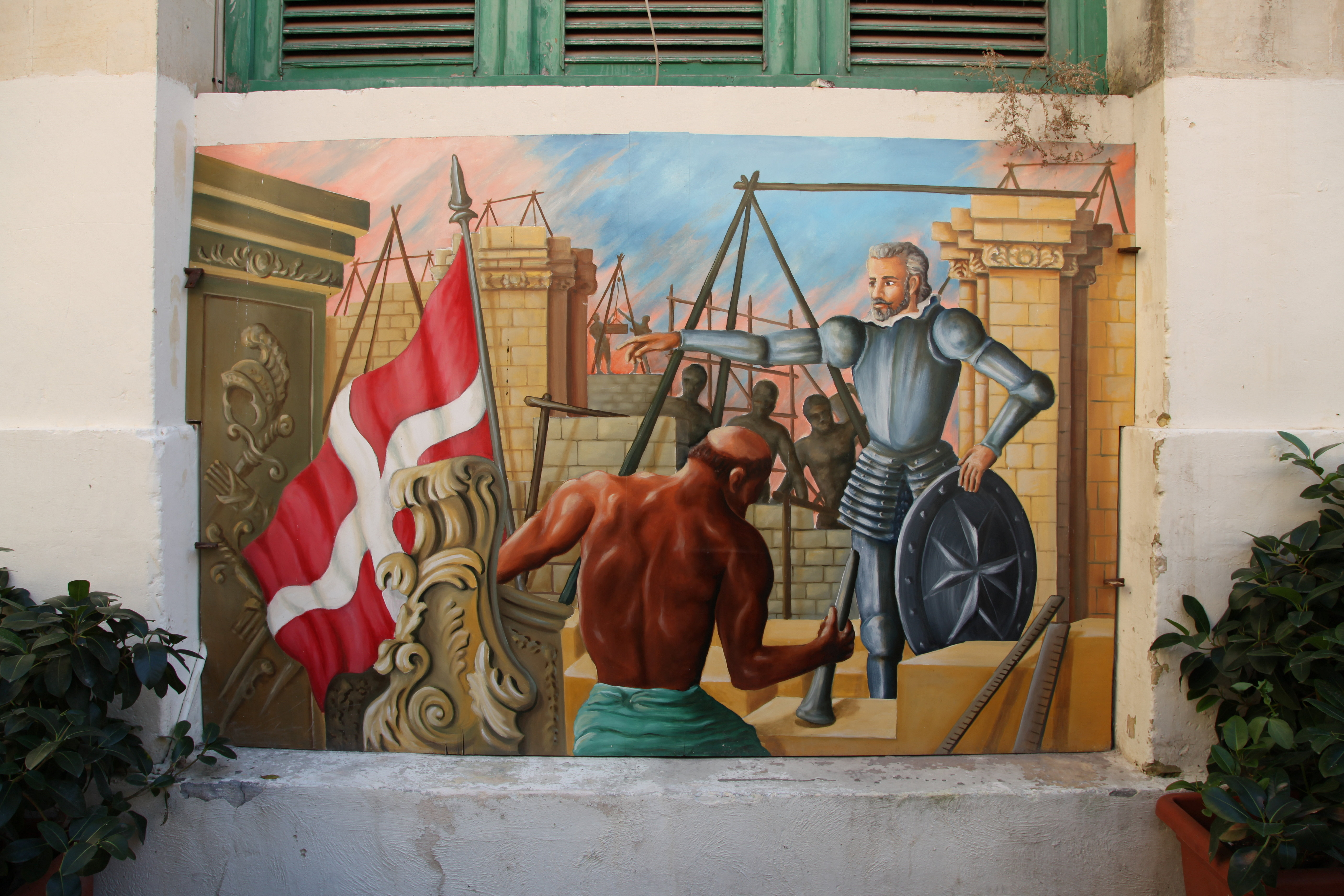 Triq il-Merkanti in Valletta, Malta